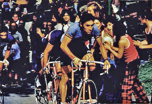 This is a scan of a print from a slide. This was the first World Cycling Championships held in North America. Friends and I drove from the Boston area to Montreal for this one race. Eddy won, of course. Check out the muscles in his legs.